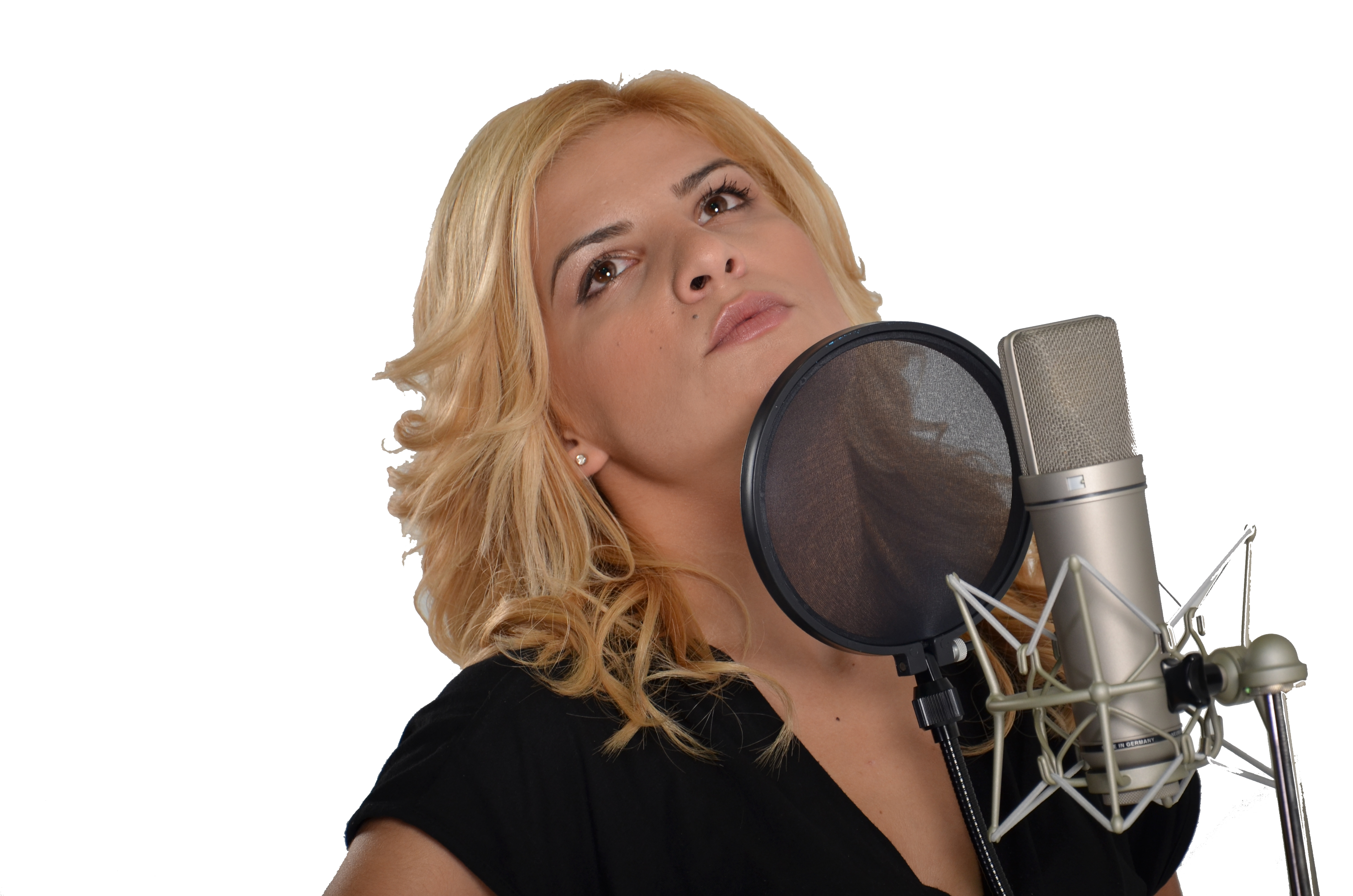 Greek/Serbain upcoming singer